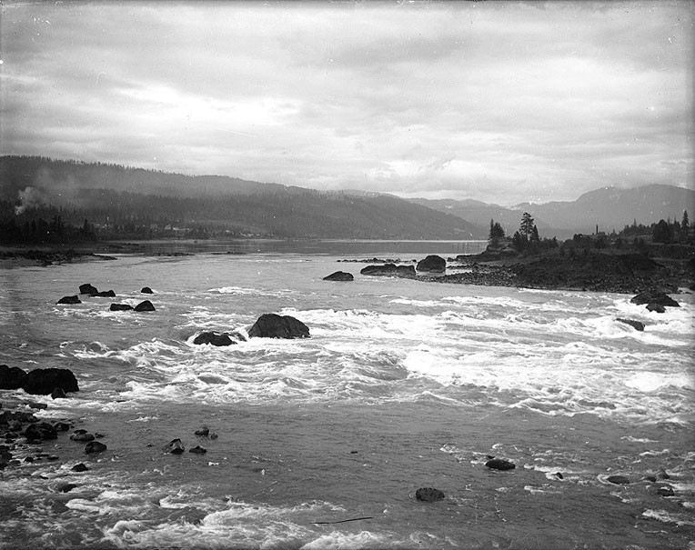 Possibly the Upper Cascades Subjects (LCTGM): Rivers--Washington (State); Rapids--Washington (State) Subjects (LCSH): Columbia River